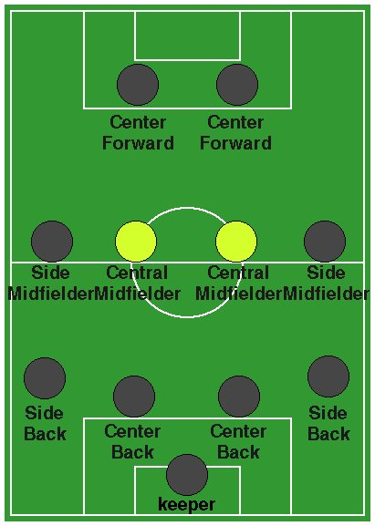 Position of CentralMidfielder